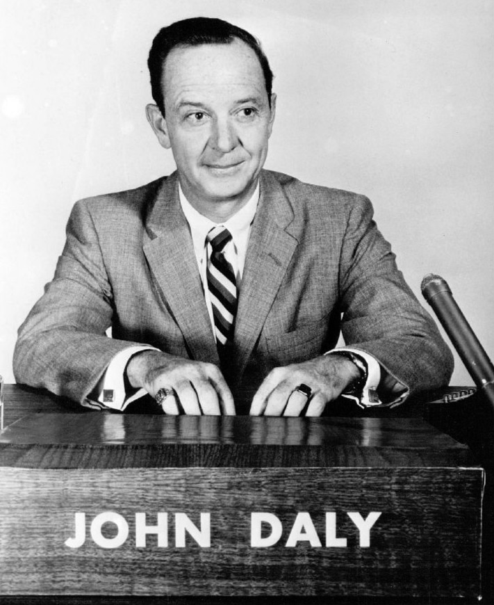 Journalist John Daly as the host of the television game program It's News to Me.